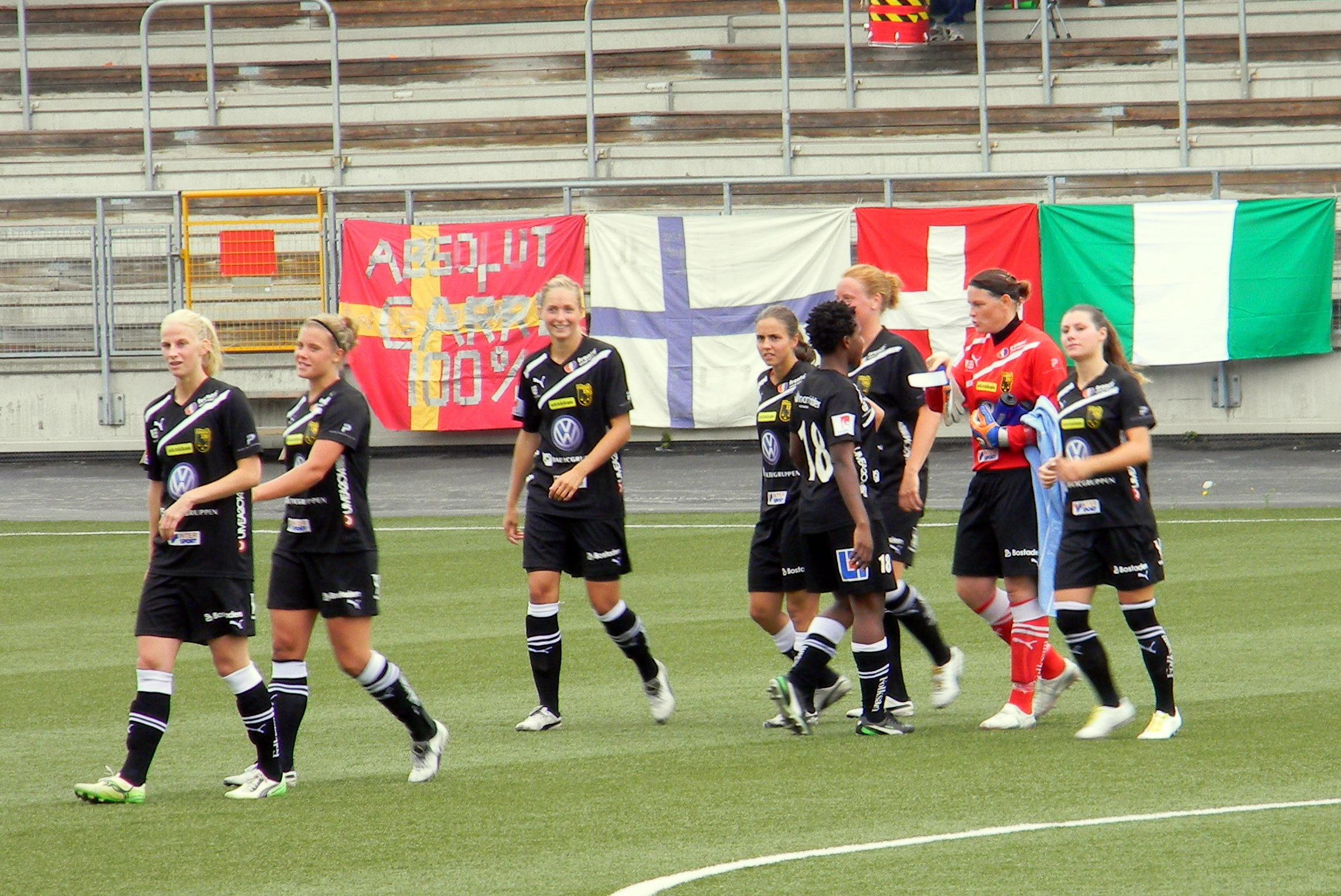 Umeå IK before the game with Jitex BK on Jul 24, 2011